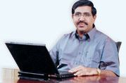 Chairman of Narayana Institutions